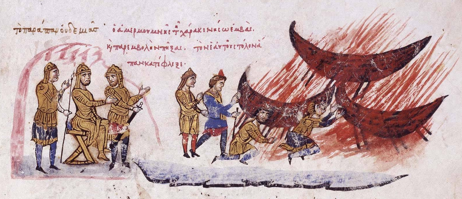 The Amermoumnes (usually meaning the Caliph, here the Cretan Saracen leader Abu Hafs) orders the torching of his fleet